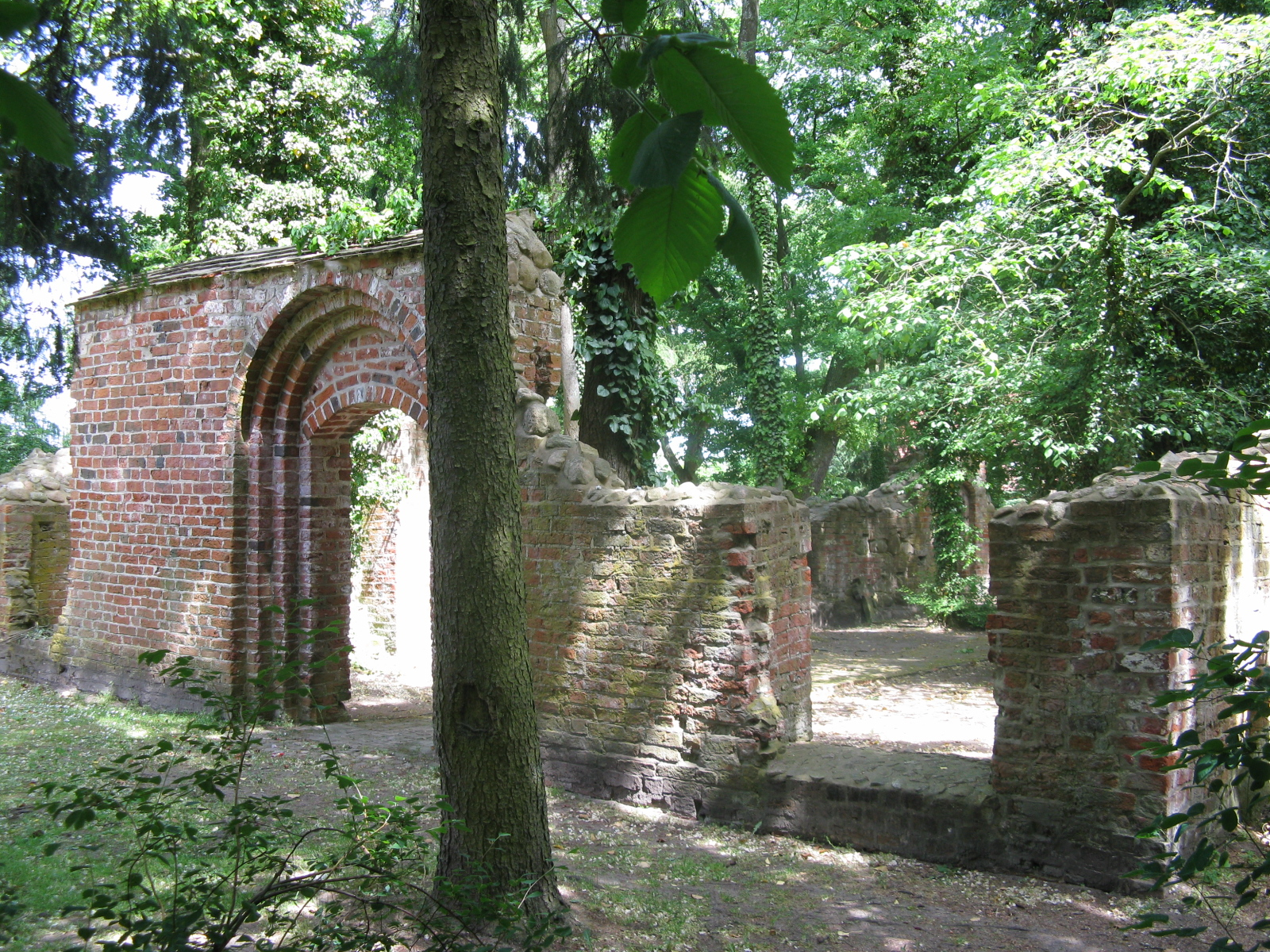 Ruine of Michaelis-Church (est. ~1250) in Alt Jabel (Vielank), Mecklenburg-Vorpommern, Germany